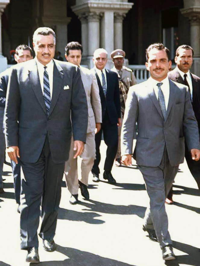 Egyptian President Gamal Abdel Nasser and Jordanian King Hussein at the 1964 Arab League Summit in Alexandria